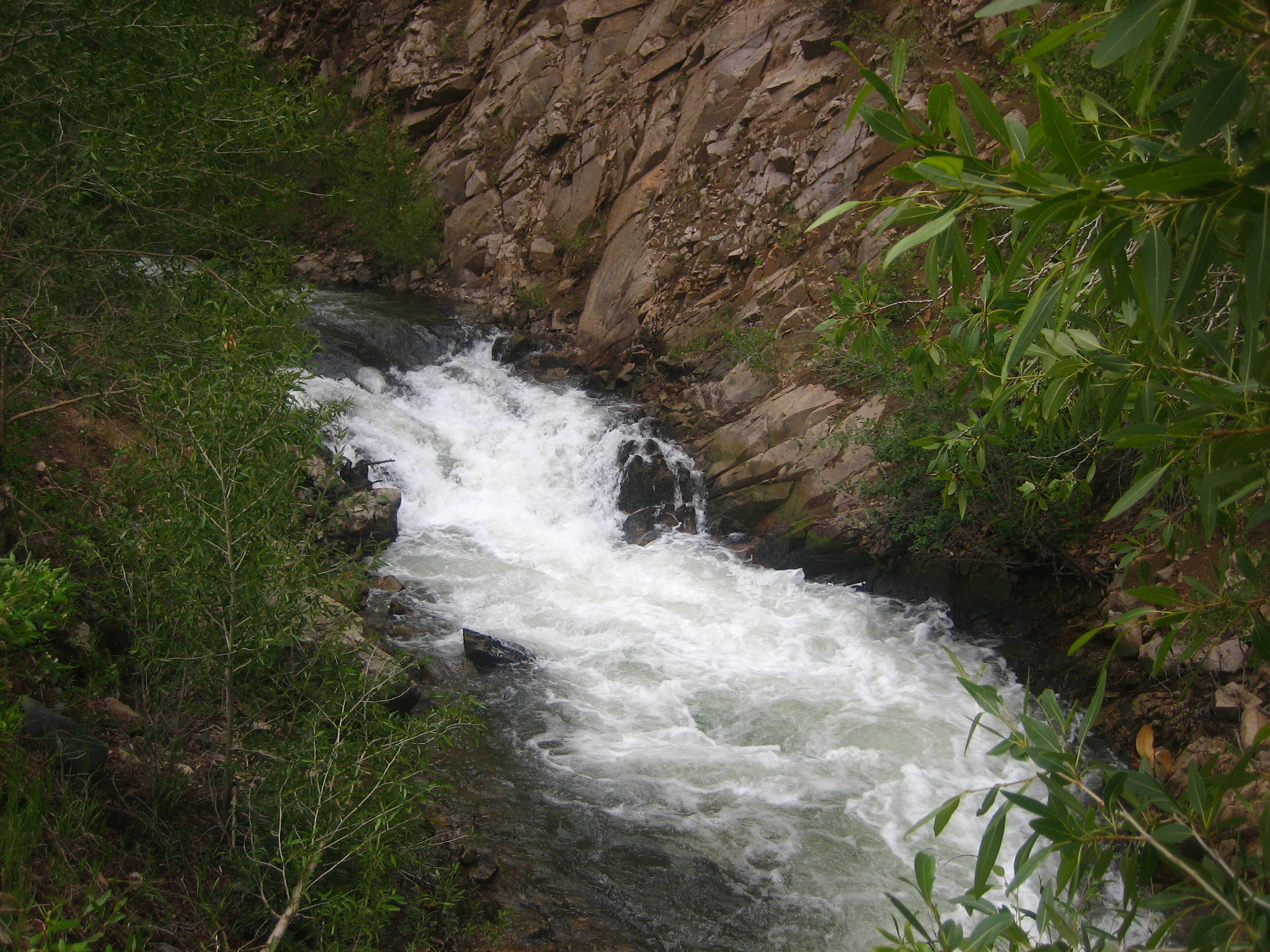 The Red River — of Taos County, northern New Mexico. A tributary of the Rio Grande, its headwaters are on Mount Wheeler in the Sangre de Cristo Mountains. A section is within Rio Grande del Norte National Monument, and designated a U.S. Wild and Scenic River. I took photo in July 2008.